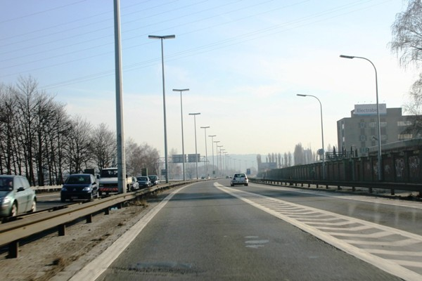 E25 (A 25) Motorway near Bressoux in the direction of Visé.